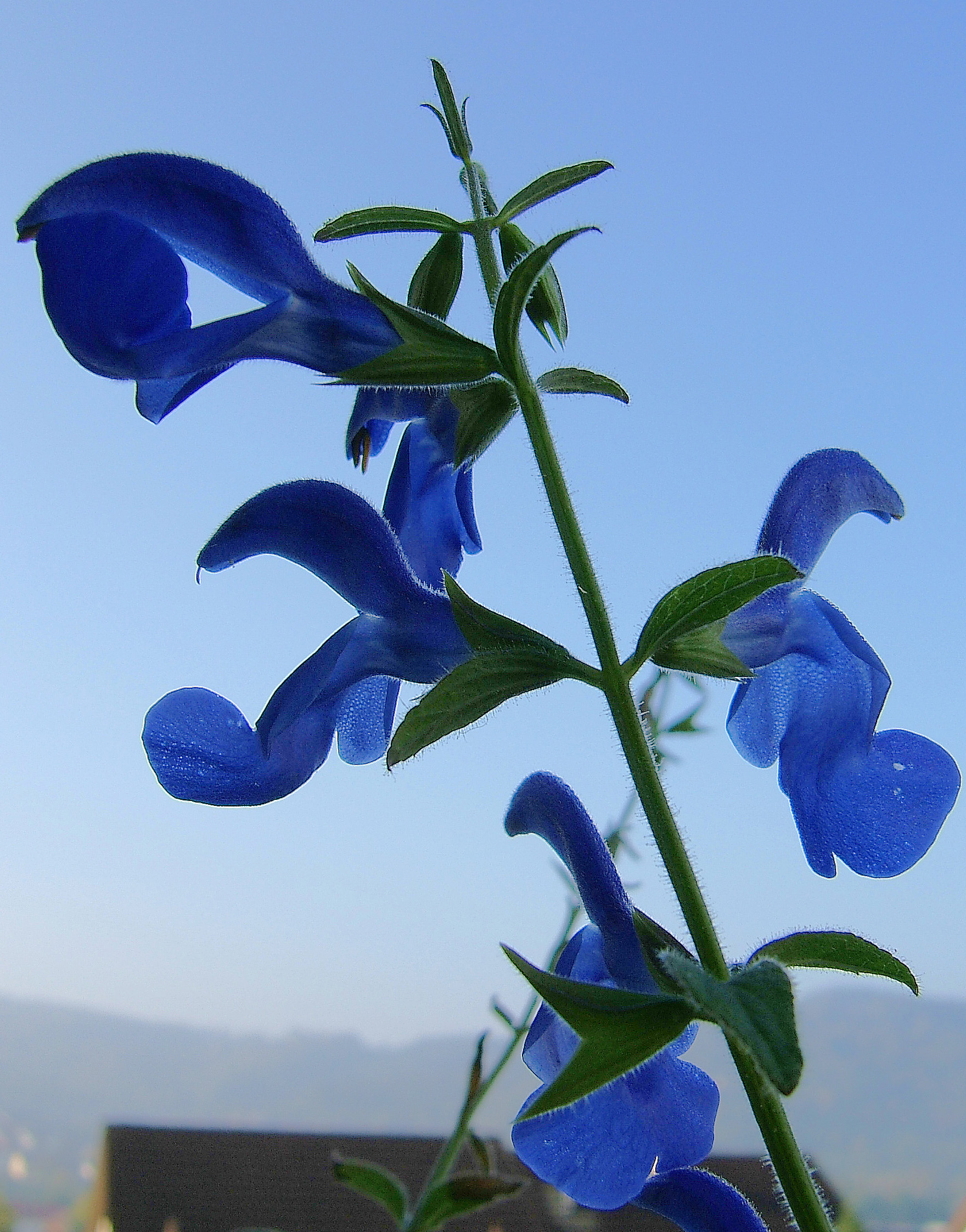 Gentian Sage